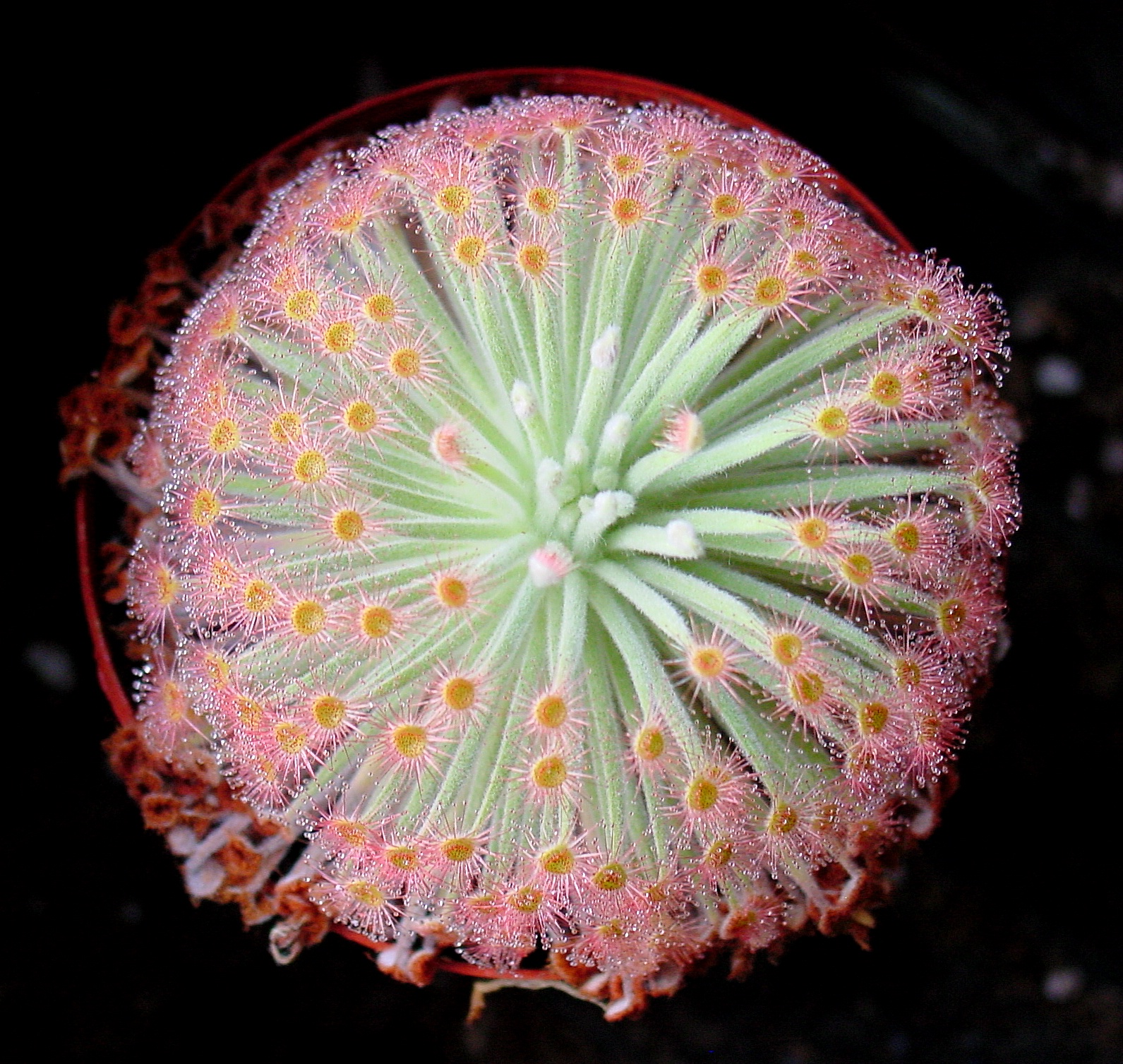 Description: Drosera derbyensis Photo taken by: Noah Elhardt